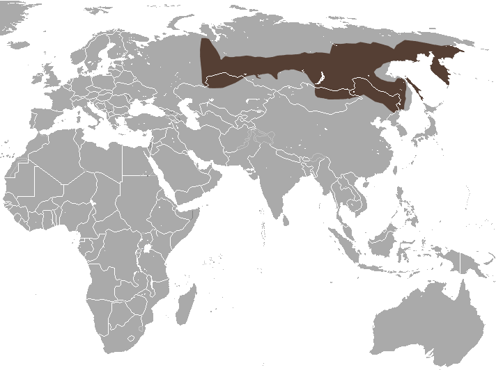 Siberian Large-toothed Shrew (Sorex daphaenodon) range